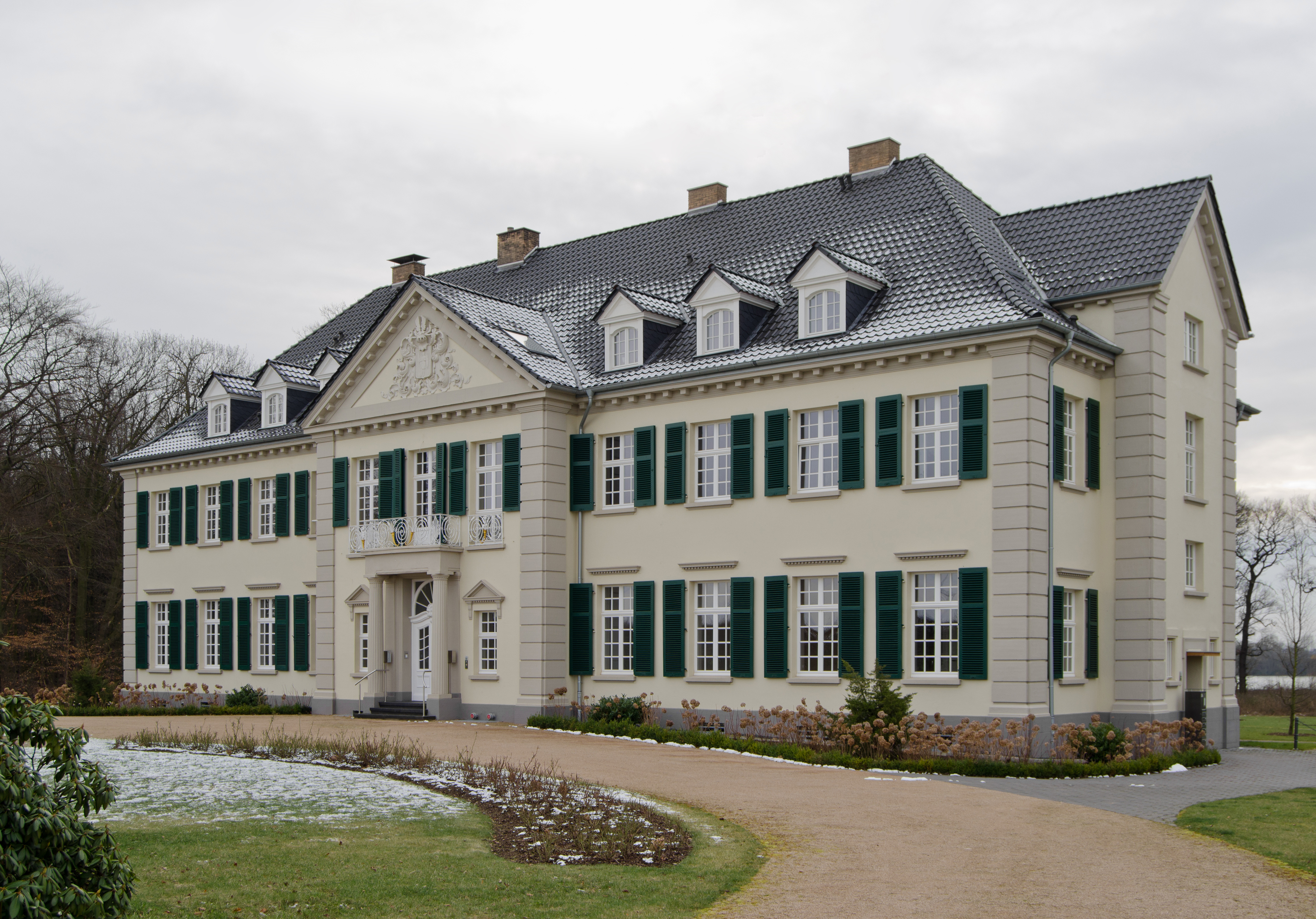 Monheim am Rhein (North Rhine-Westphalia, Germany) – Laach Castle This image shows a heritage building in Germany, located in the North Rhine-Westphalian city Monheim am Rhein (no. –). This photograph was taken with a Nikon D7000